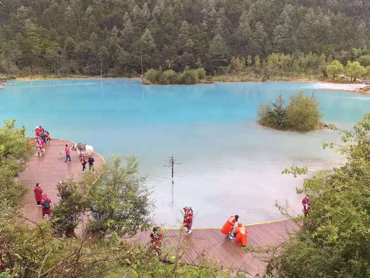 The characteristic of the Blue Moon Valley of Yulong Snow Mountain: water renowned for its "milk" color and its "pure" quality becomes blue when the weather is nice. Yunnan, China.